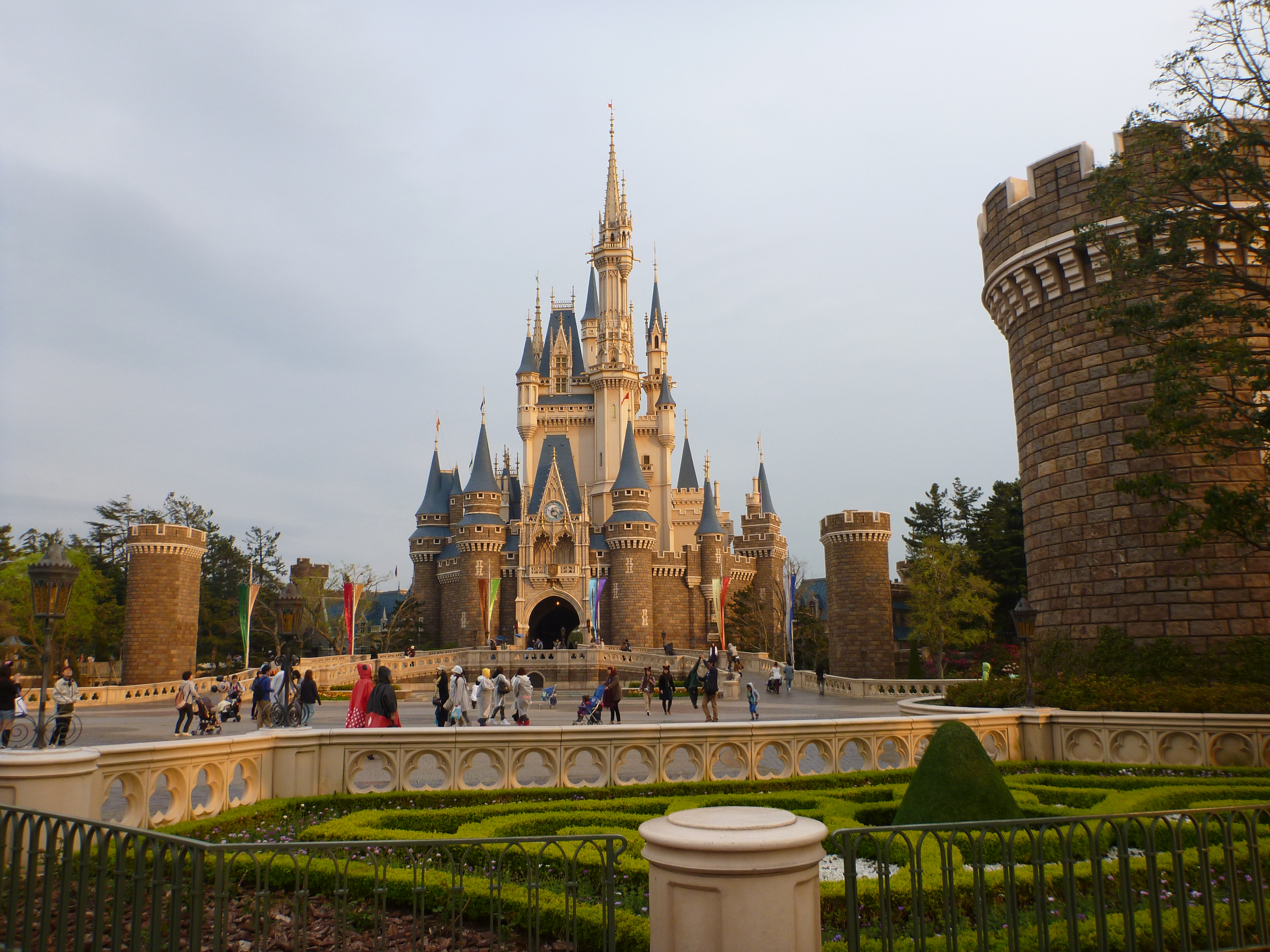 Disneyland Tokyo, Japan